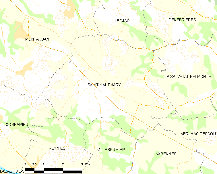 Map of French municipality Saint-Nauphary